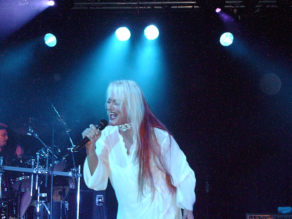 Pamela Moore as "Sister Mary" at Queensryche "Operation Mindcrime 2" tour, Manchester, 2006-06-04.